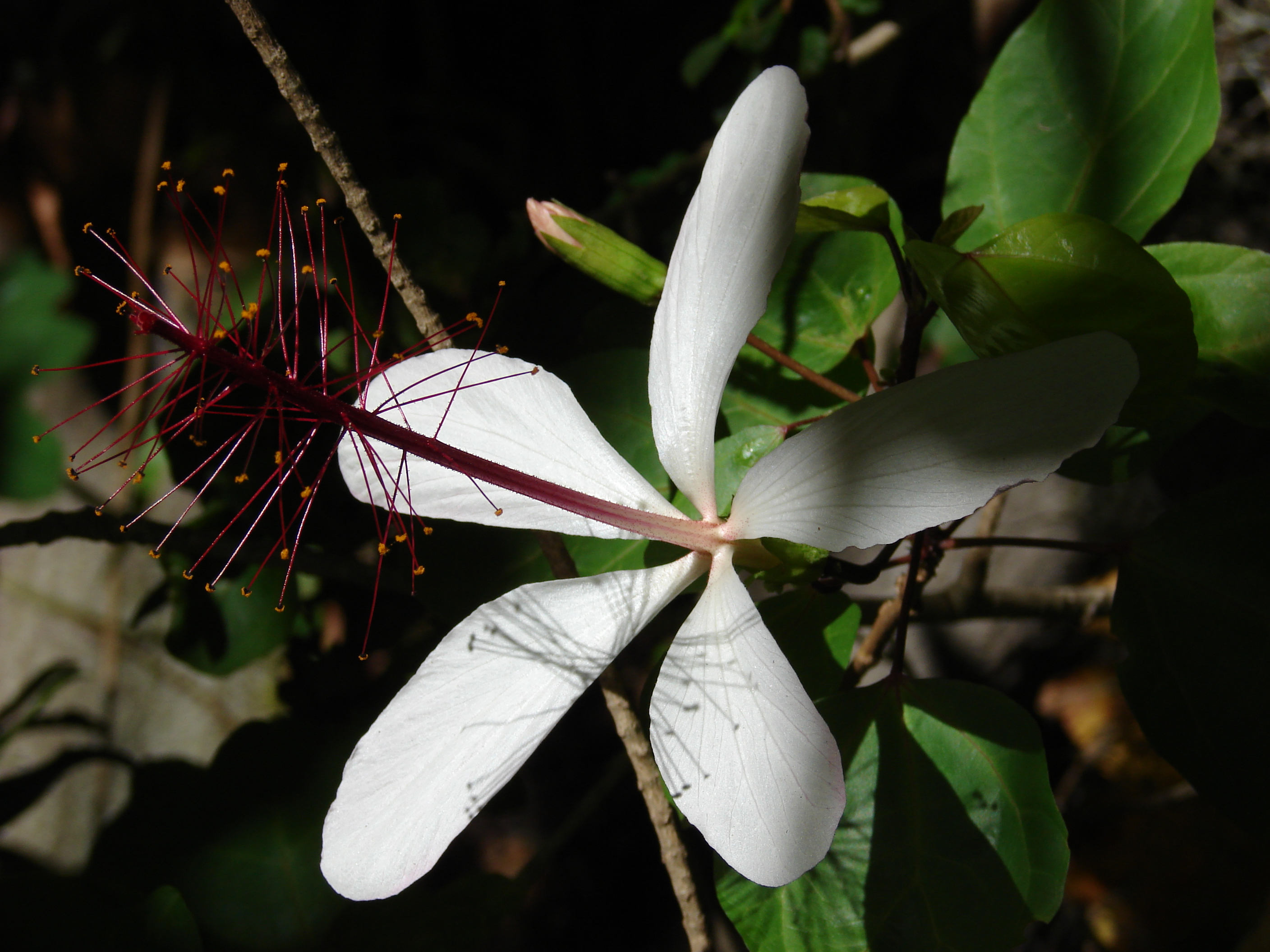 Hibiscus arnottianus subsp. arnottianus (flower). Location: Maui, Enchanting Floral Gardens of Kula